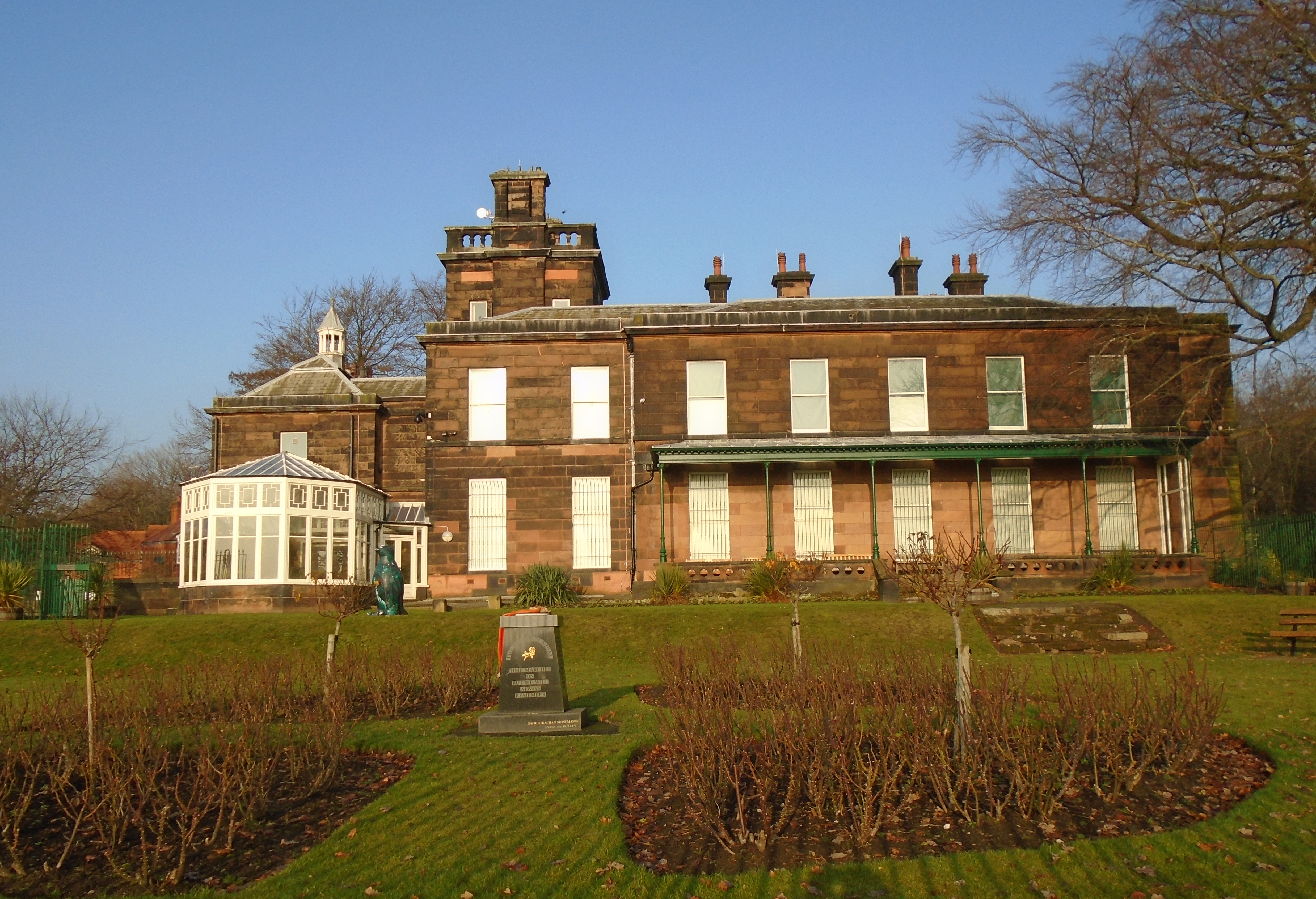 Rear garden at Sudley House, Mossley Hill; also visible the Sudley Sundial.